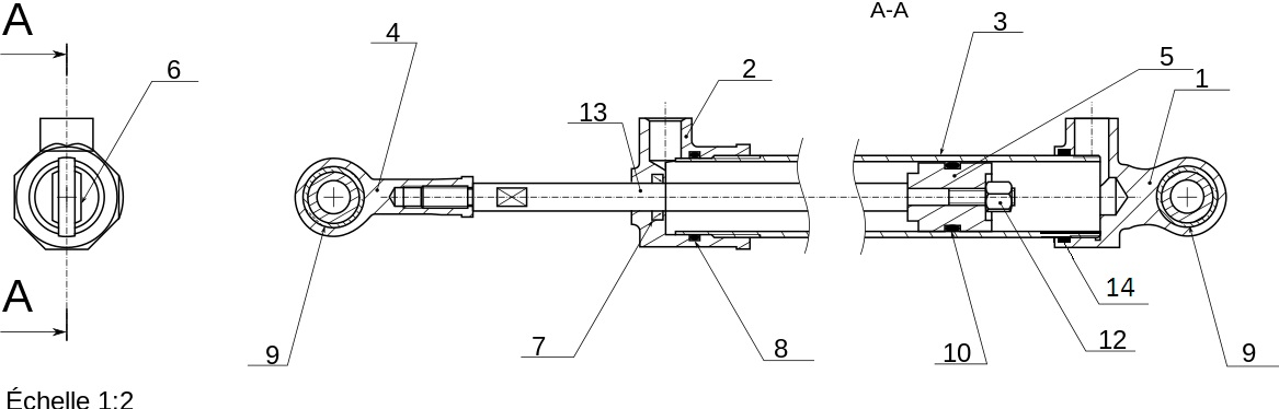 Cross section of a double-effect linear actuator.